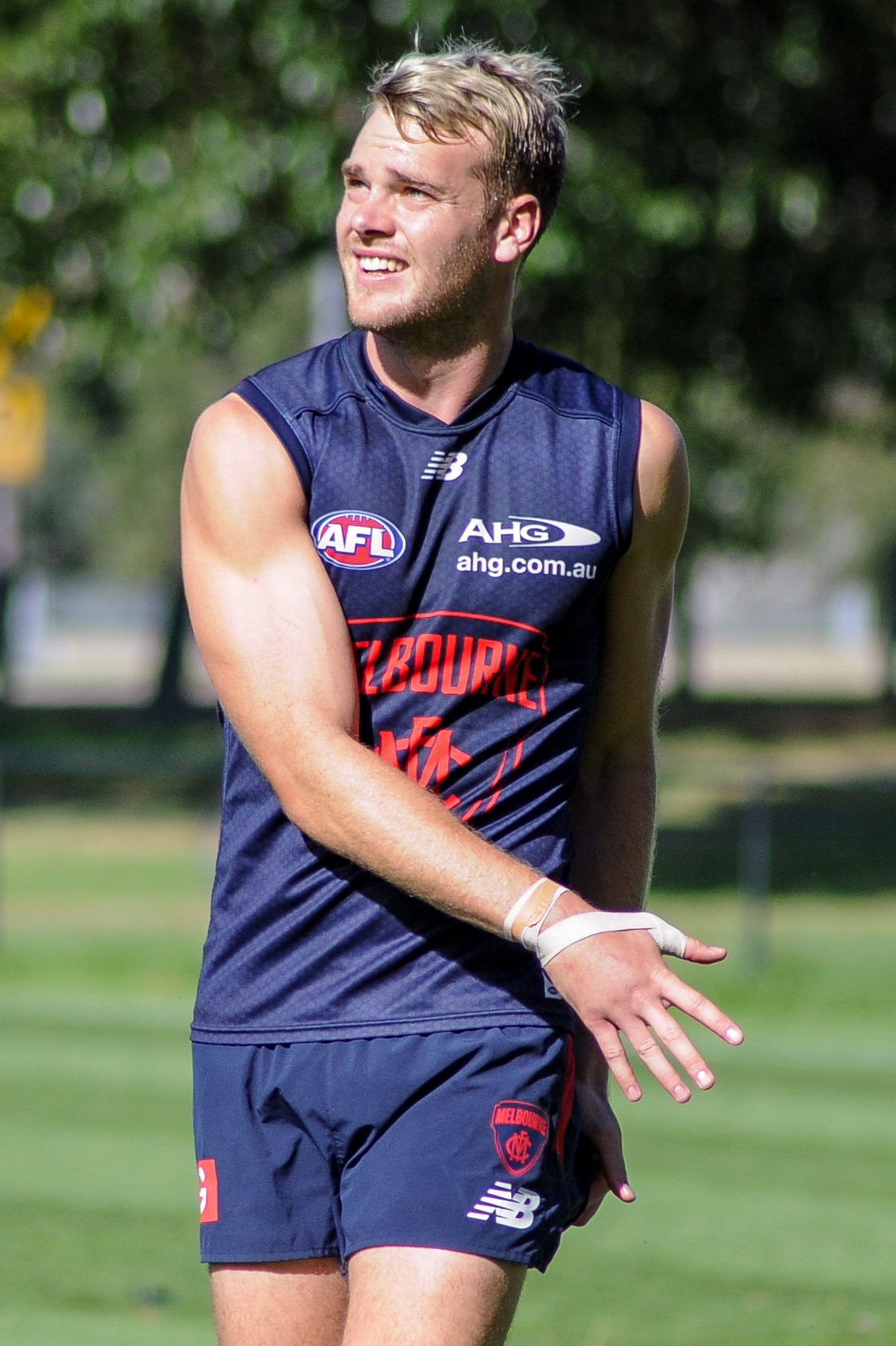 Jack Watts during Melbourne training on 28 March 2017 at Gosch's Paddock in Melbourne, Victoria.